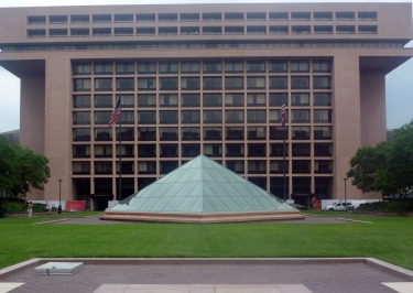 National Transportation Safety Board (NTSB) headquarters